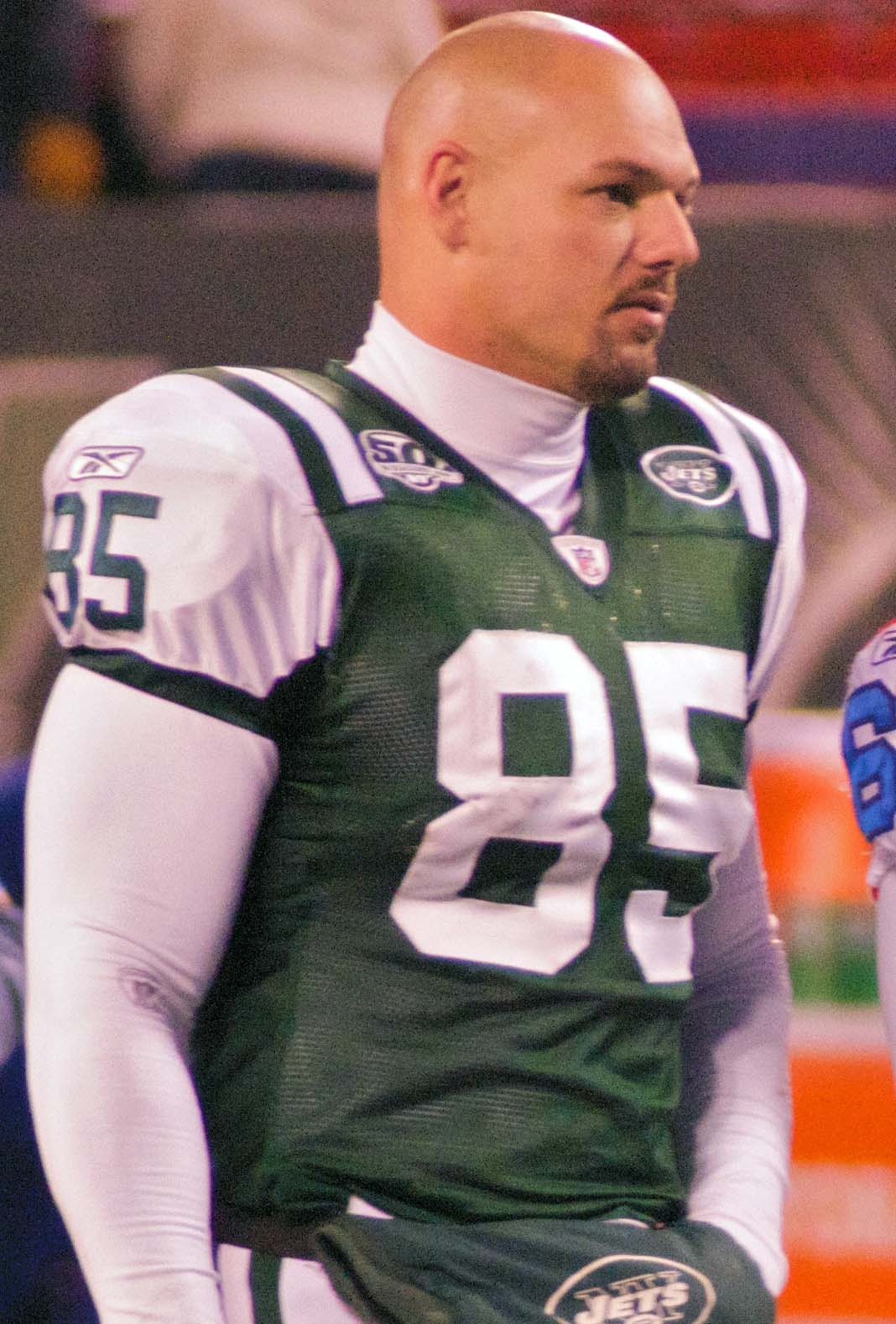 FOllowing Buffalo Bills vs New York Jets game in October 2009.